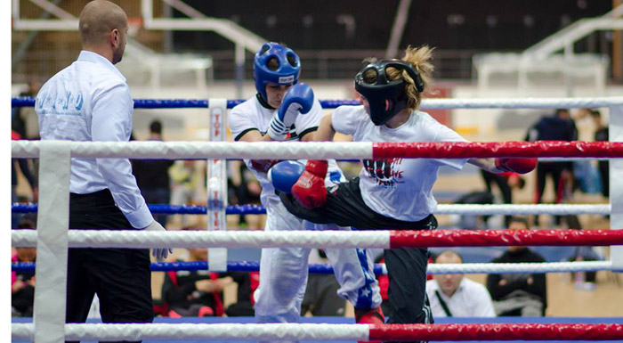 Amalia Koleva kikboxing